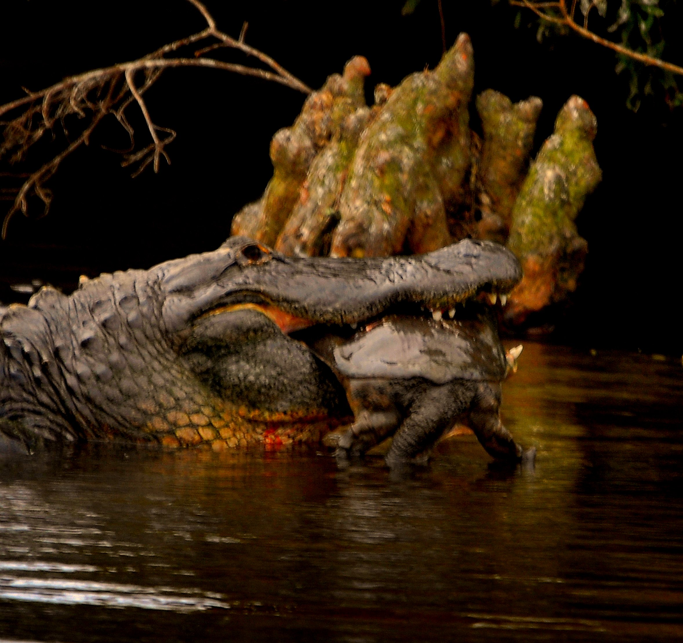 Ker'CHOMP Alligator with large Florida Softshell Turtle